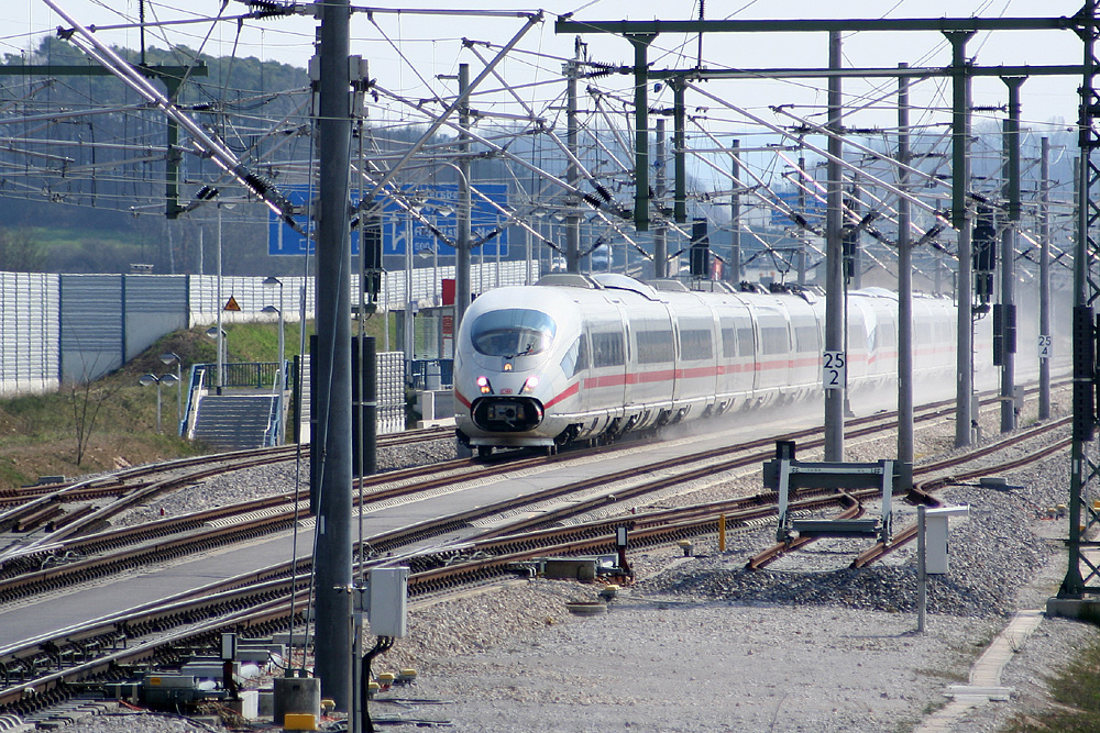 At 300 km/h, an ICE 3 (DB class 403) releases sand from several bogies to the rails. This picture has been taken at the railway station of Allersberg